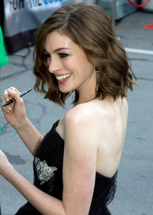 Anne Hathaway at the premiere of Rachel Getting Married, Toronto Film Festival 2008.